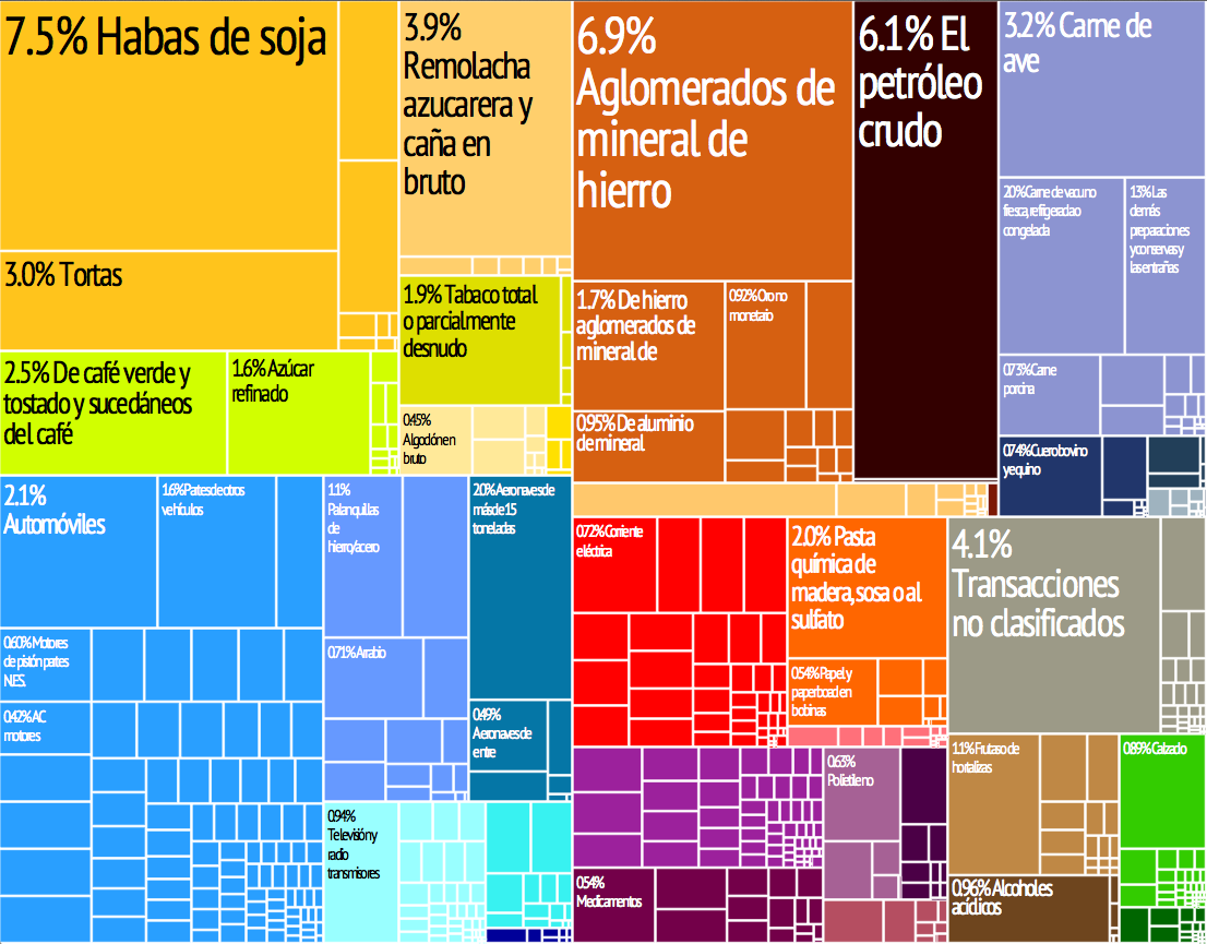 Representación gráfica de los productos de exportación del país en 28 categorías codificadas por color. Cada recuadro de color representa un producto y su tamaño es proporcional a la participación que ese producto representa dentro del total de las exportaciones del país.